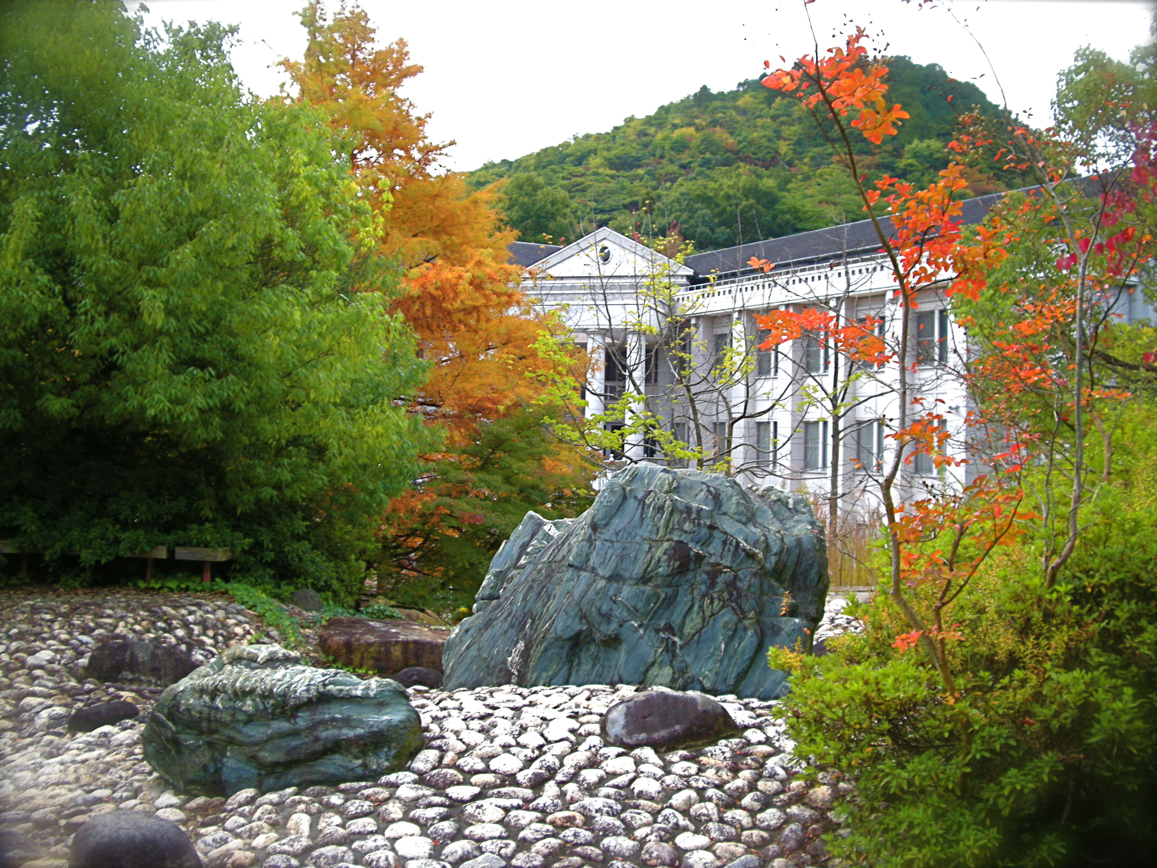 Rock Garden and Saionji Memorial Hall (Ritsumeikan University, Kyoto, Japan)